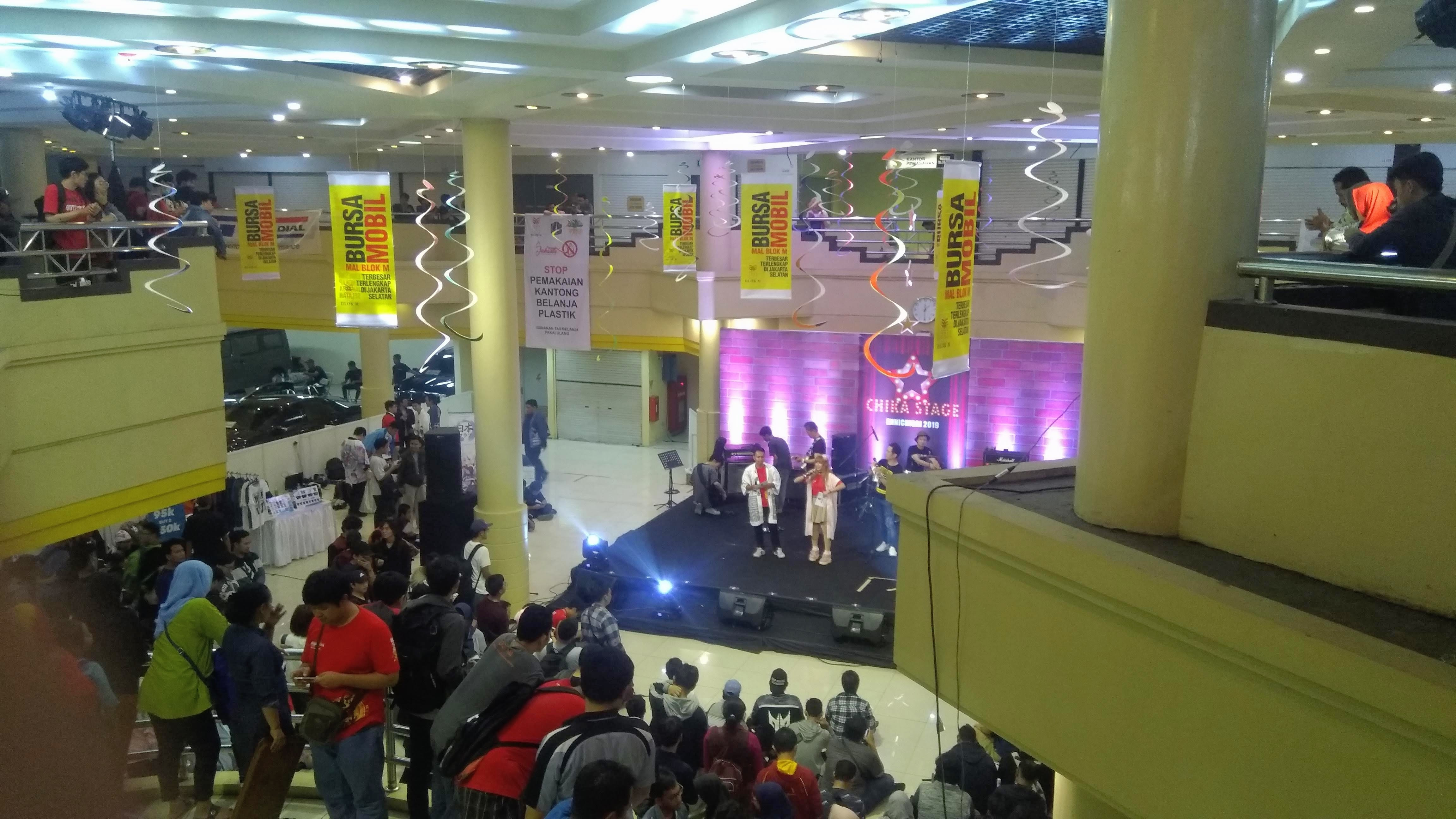 Ennichisai 2019 Chika Stage